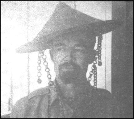 Colonel Wendell Fertig, U.S. Army Corps of Engineers and commander 10th Military District, Island of Mindanao, Philippines. His well-known red goatee, which he wore during the war, is seen in this image.